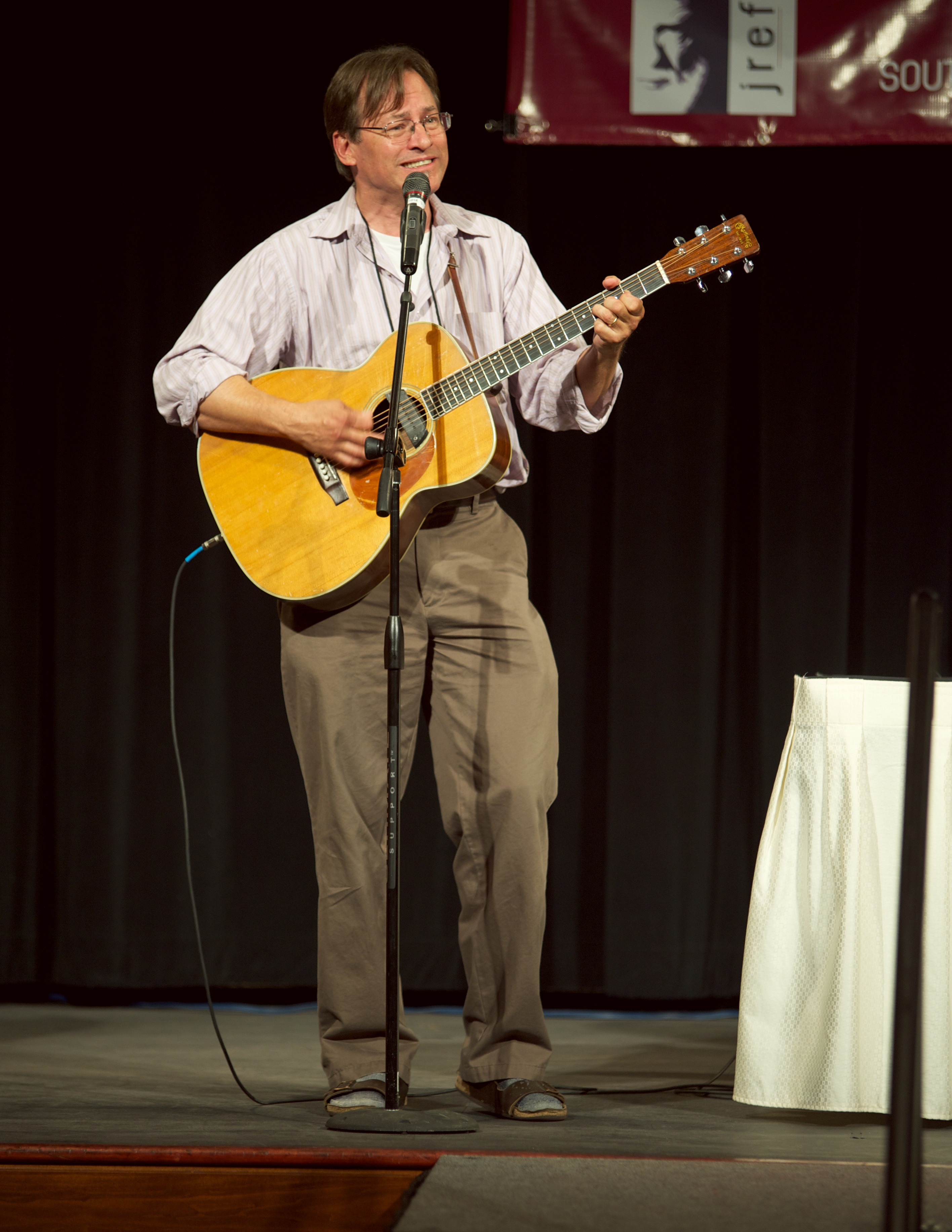 Roy Zimmerman